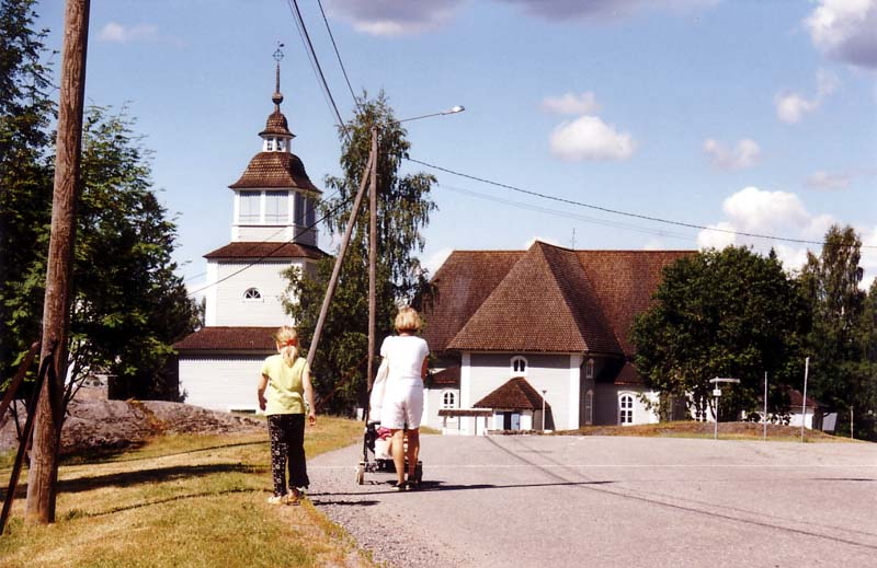 Mother with daughters taking a stroll in Ristiina, Finland. Ristiina Church in the background.